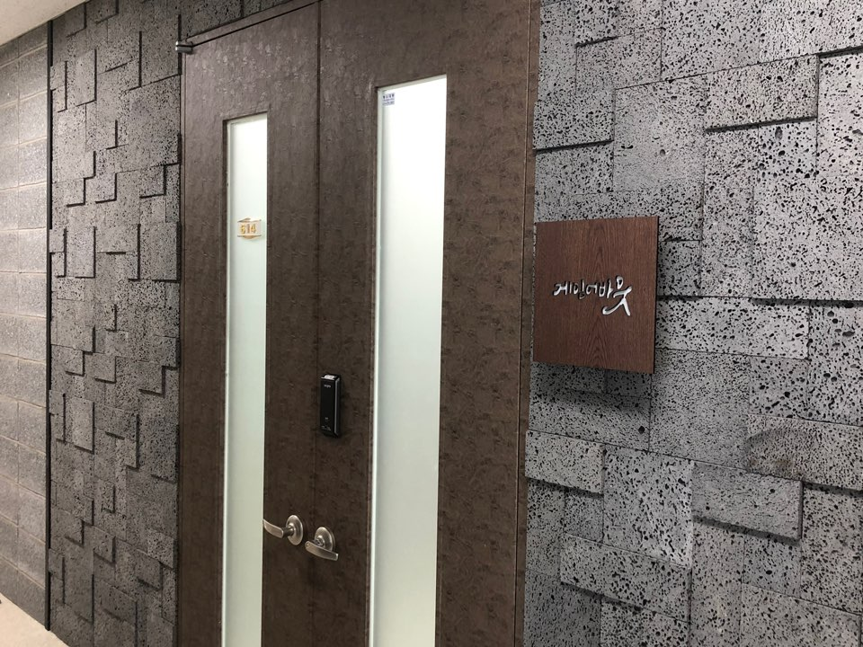 gameabout office